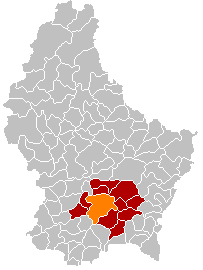 Own edit of Kanton LuxemburgLocatie.png